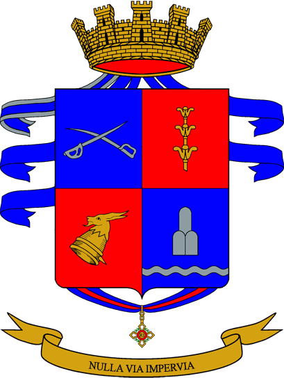 Coat of Arms of the 14º Bersaglieri Battalion "Sernaglia", 5º Bersaglieri Regiment; Italian Army.